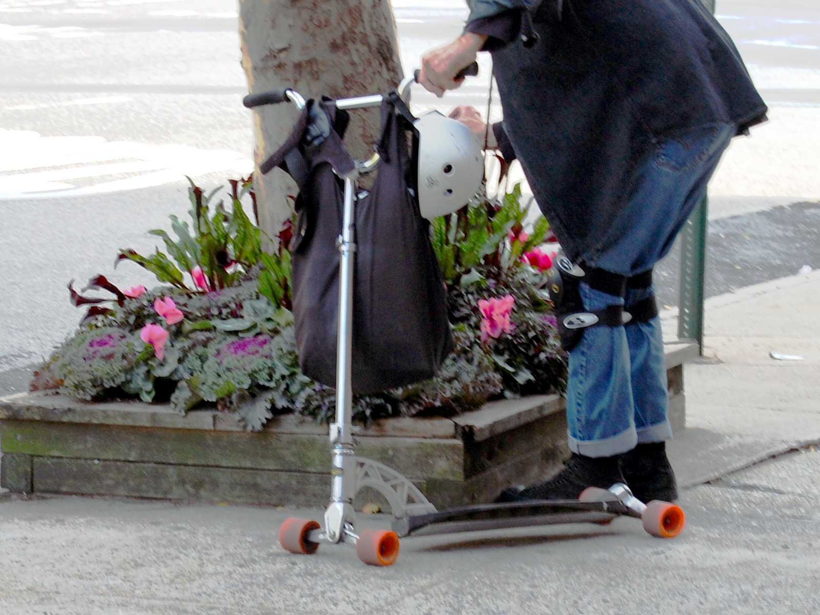 Fuzion NX with BMX bars and Longboard wheels